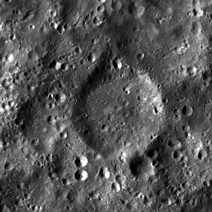 Pirquet at center, numerous craterlet chains from nearby Tsiolkovskiy litter the area.